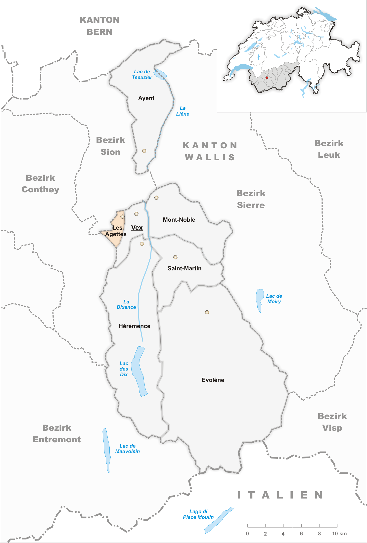 Municipality Les Agettes